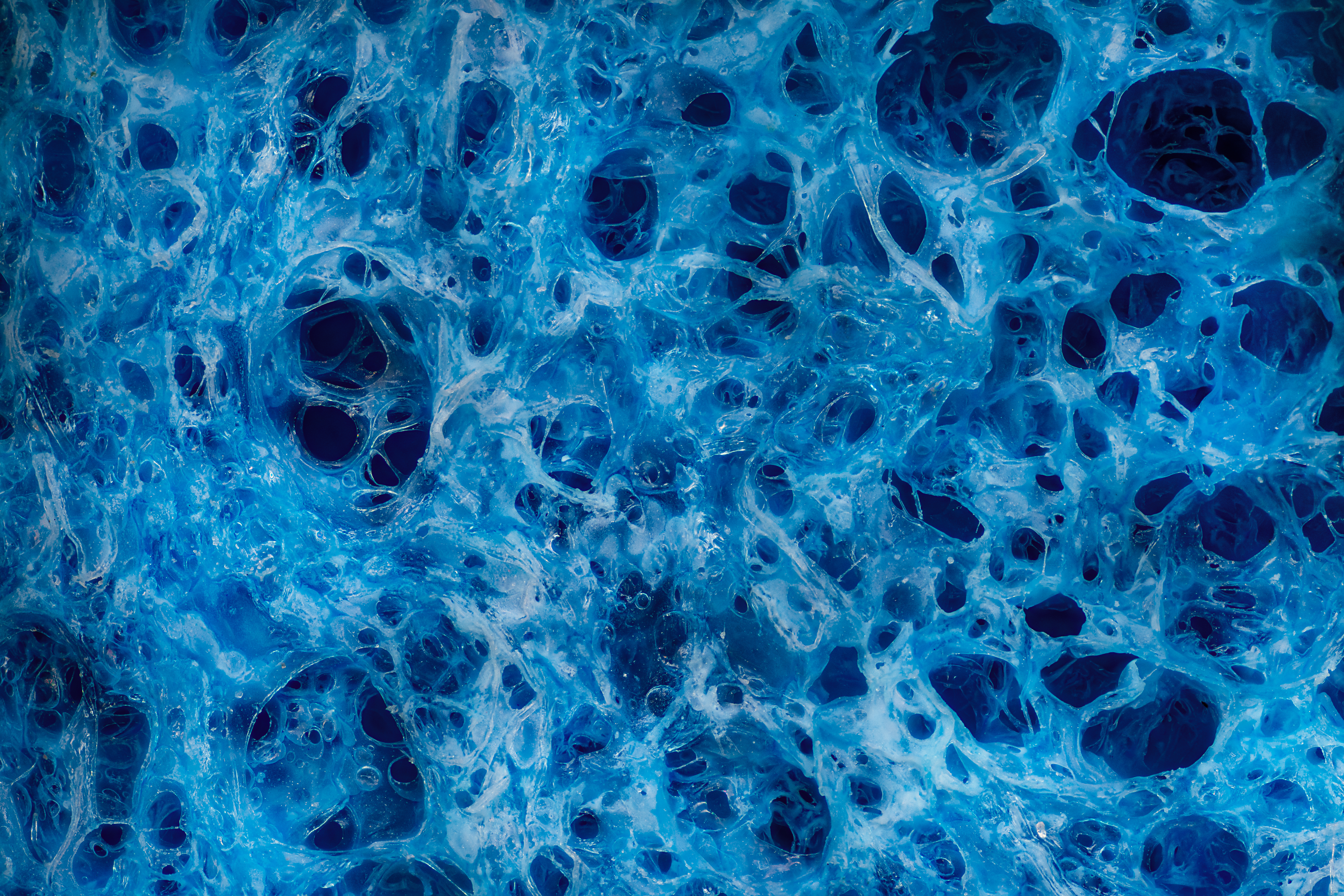 Cellulose napkin under microscope